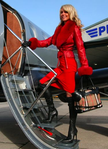 Celia sawyer boarding another Cool 10 Plane project